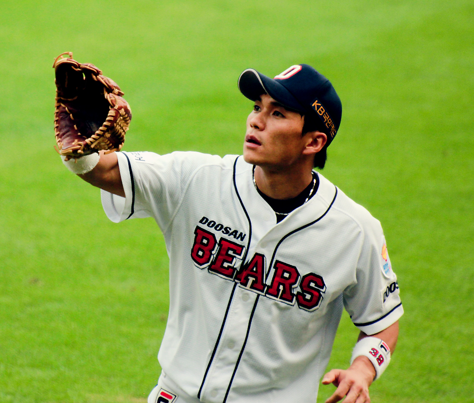 South Korean Baseballer, Lee Jong-wook (baseball)